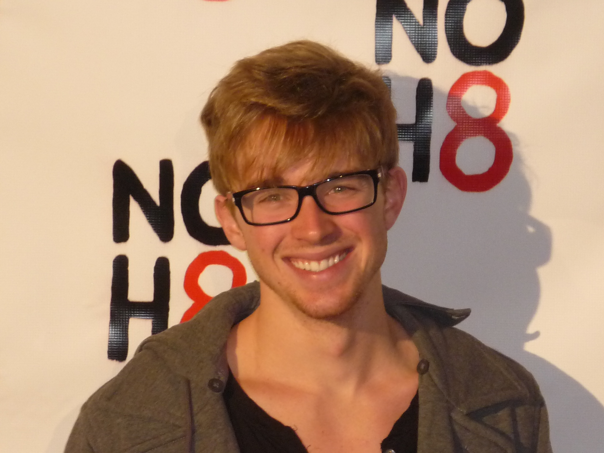 American actor Chandler Massey at the NoH8 campaign 2009